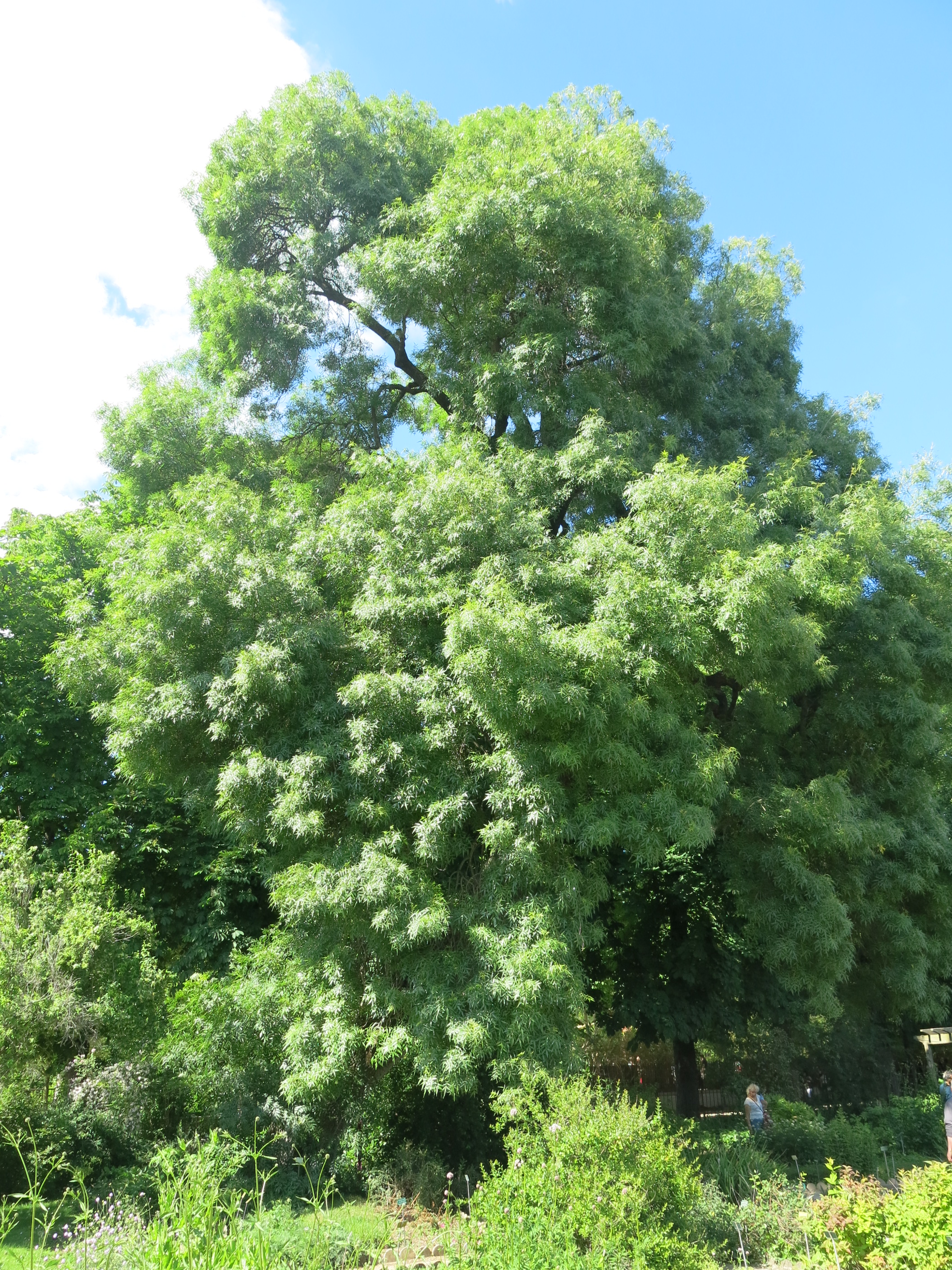 Fraxinus angustifolia in the Jardin des Plantes de Paris. Plant identified by its botanic label.